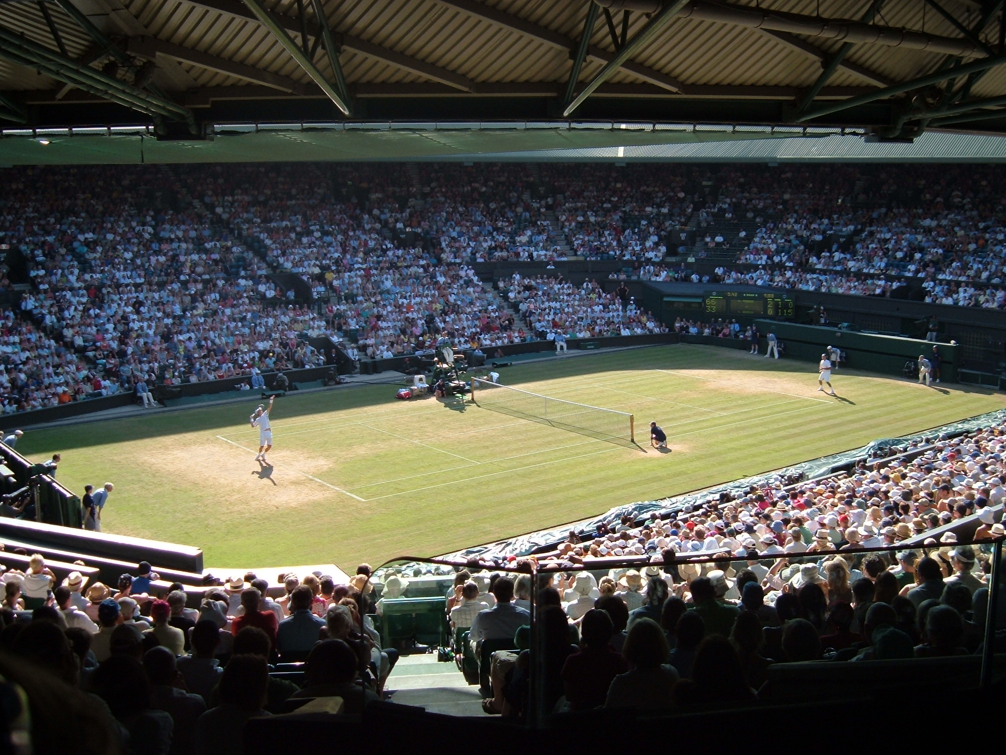 A wide view of the inside of Centre Court at the 2006 Wimbledon Championships